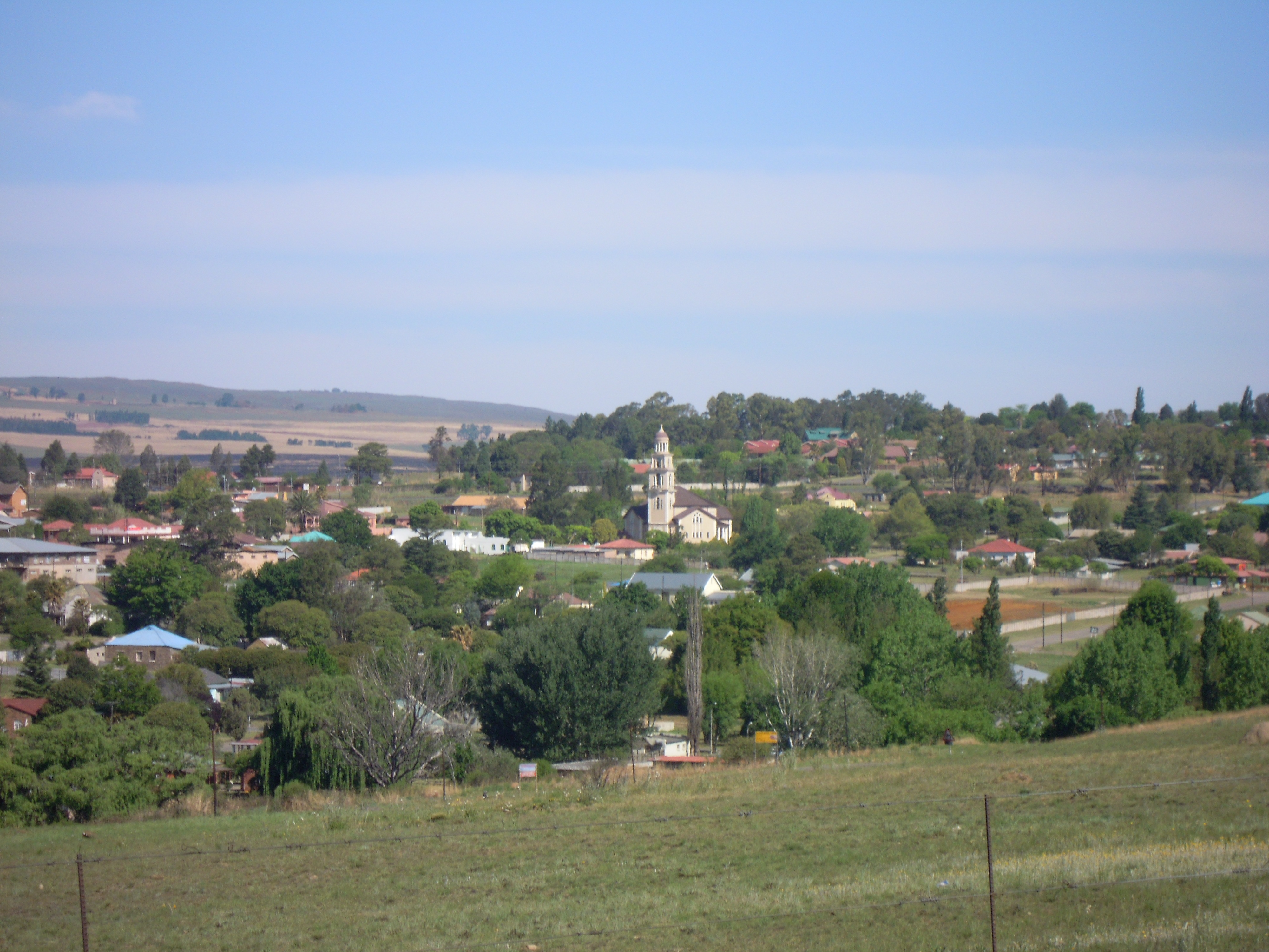 Machadodorp